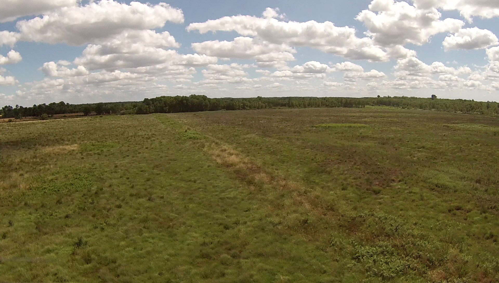 Le tracé de la lébade reste bien visible au sud de la zone industrielle d'Arsac. Vue d'un drone.